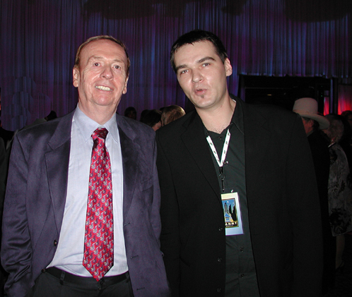 Maciek Miernik(right) with Geoffrey Emerick a recording studio audio engineer, who is best known for his work with the Beatles' albums Revolver, Sgt. Pepper's Lonely Hearts Club Band, The Beatles and Abbey Road.